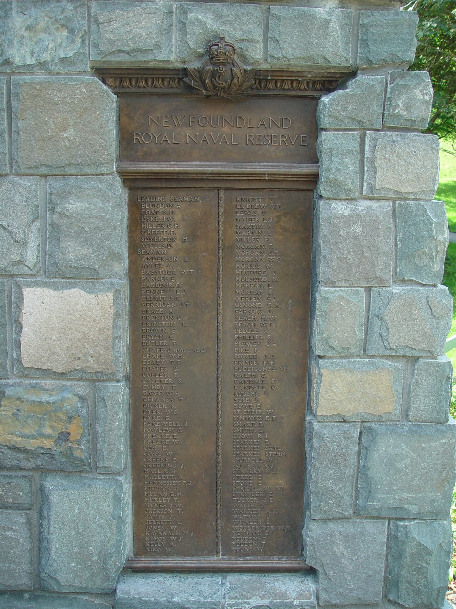 A memorial to the members of the Newfoundland Royal Naval Reserve who died during WW1 and have no known grave. This plaque is situated in Bowring Park, St. John's, Newfoundland and Labrador and is a replica of the one at the Beaumont-Hamel Newfoundland Memorial in France.